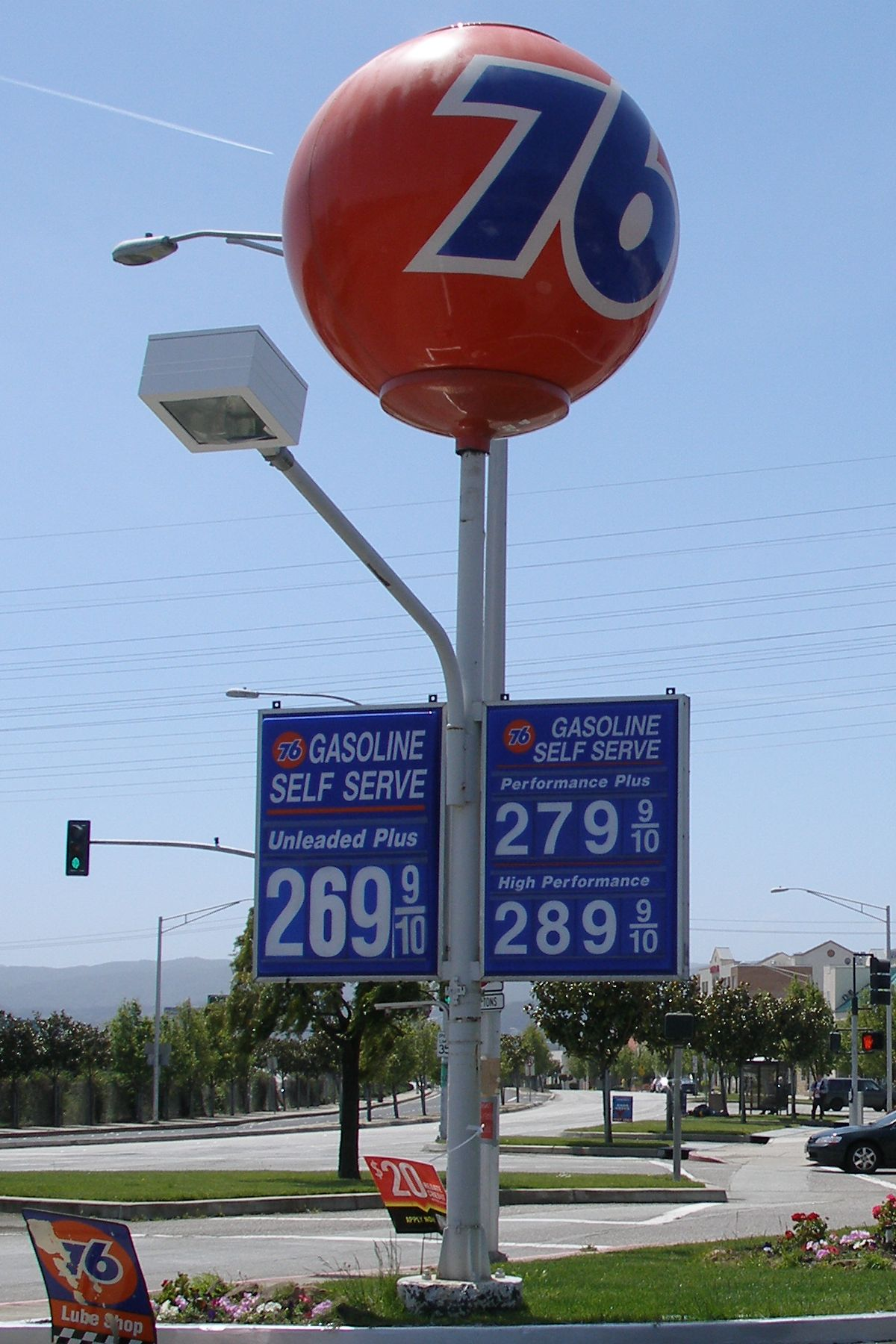 All the 76 gas stations are changing from their easily-recognizable orange color to an anonymous red. Happened more than once that I had to turn back because I didn't recognize a 76 in time.